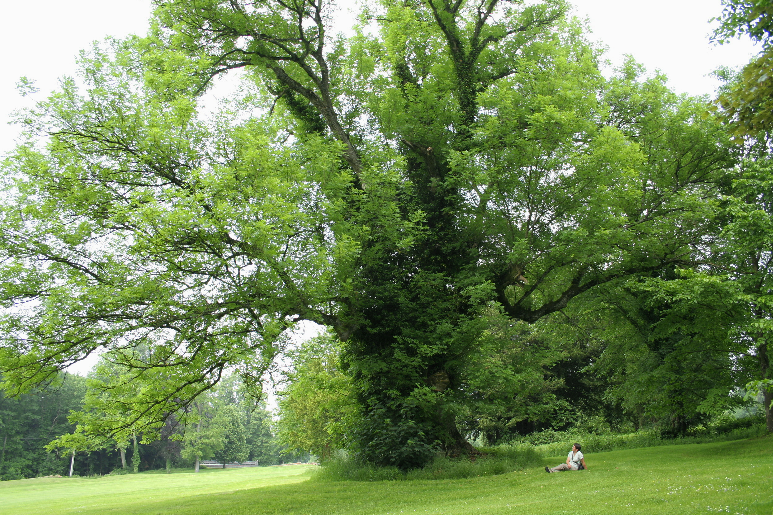 Ash